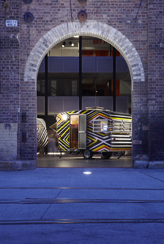 Brook Andrew, Travelling Colony 2012 installation view at Carriageworks, Sydney 2012. Image: Susannah Wimberley Courtesy artist and Tolarno Gallery, Melbourne. Commissioned by the Sydney Festival and Carriageworks.